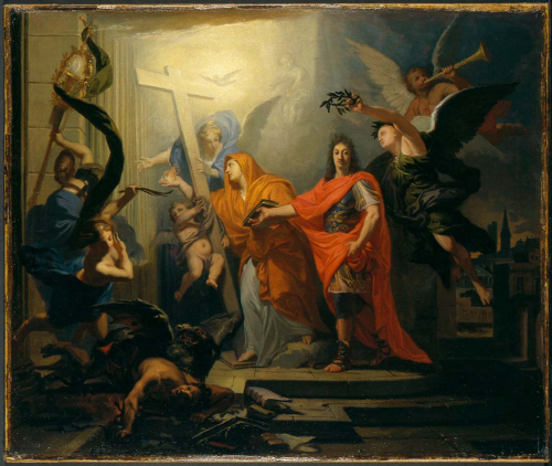 Allegory, representing the Peace of Utrecht (1713)